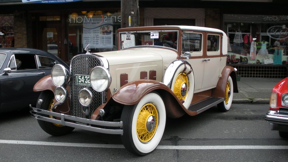 Photo taken at the Greenwood Car Show in Seattle Washington.